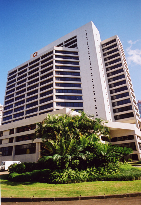 CEM Building